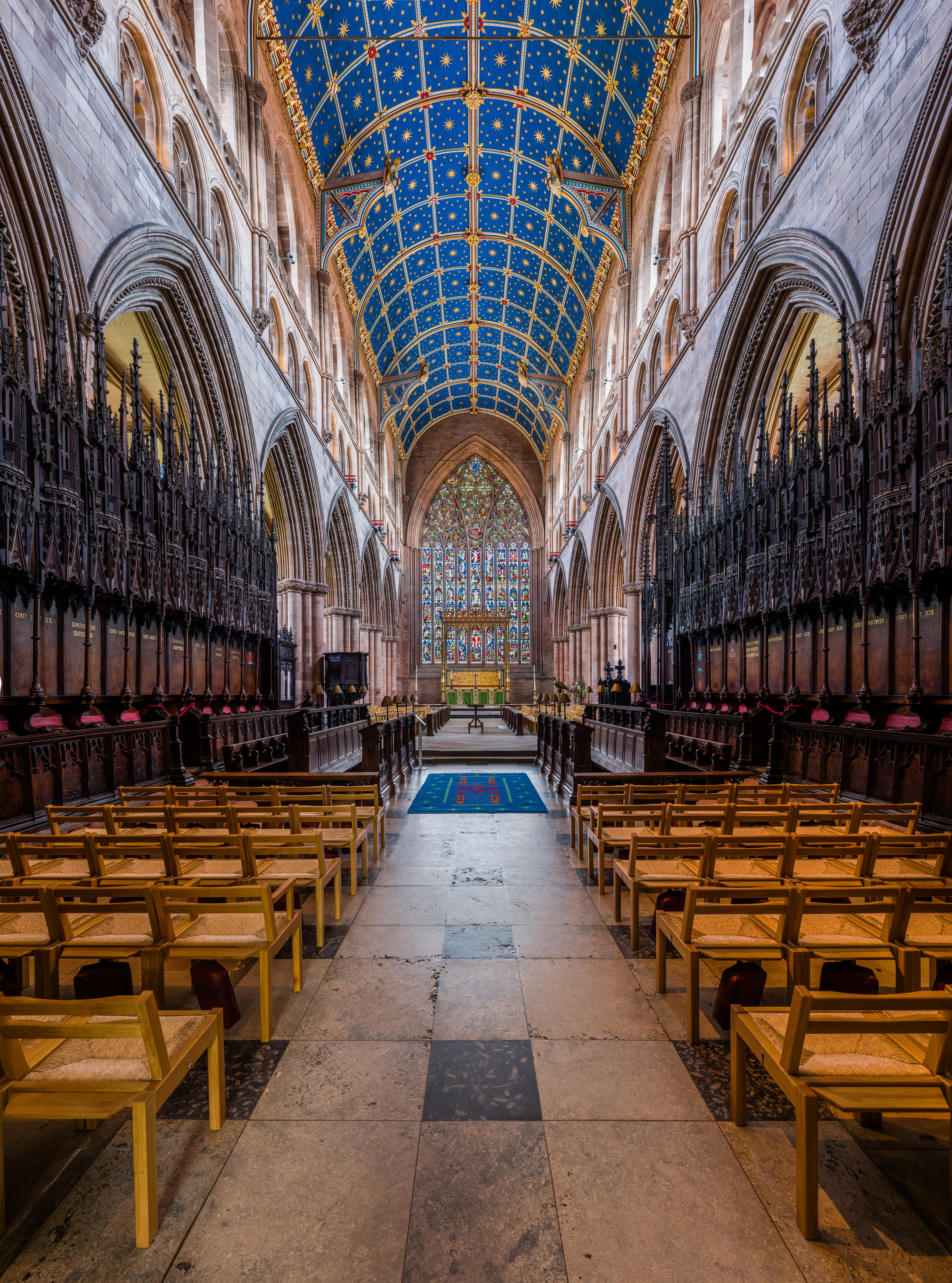 The interior of Carlisle Cathedral in Cumbria, England, viewed from the choir looking toward the altar.